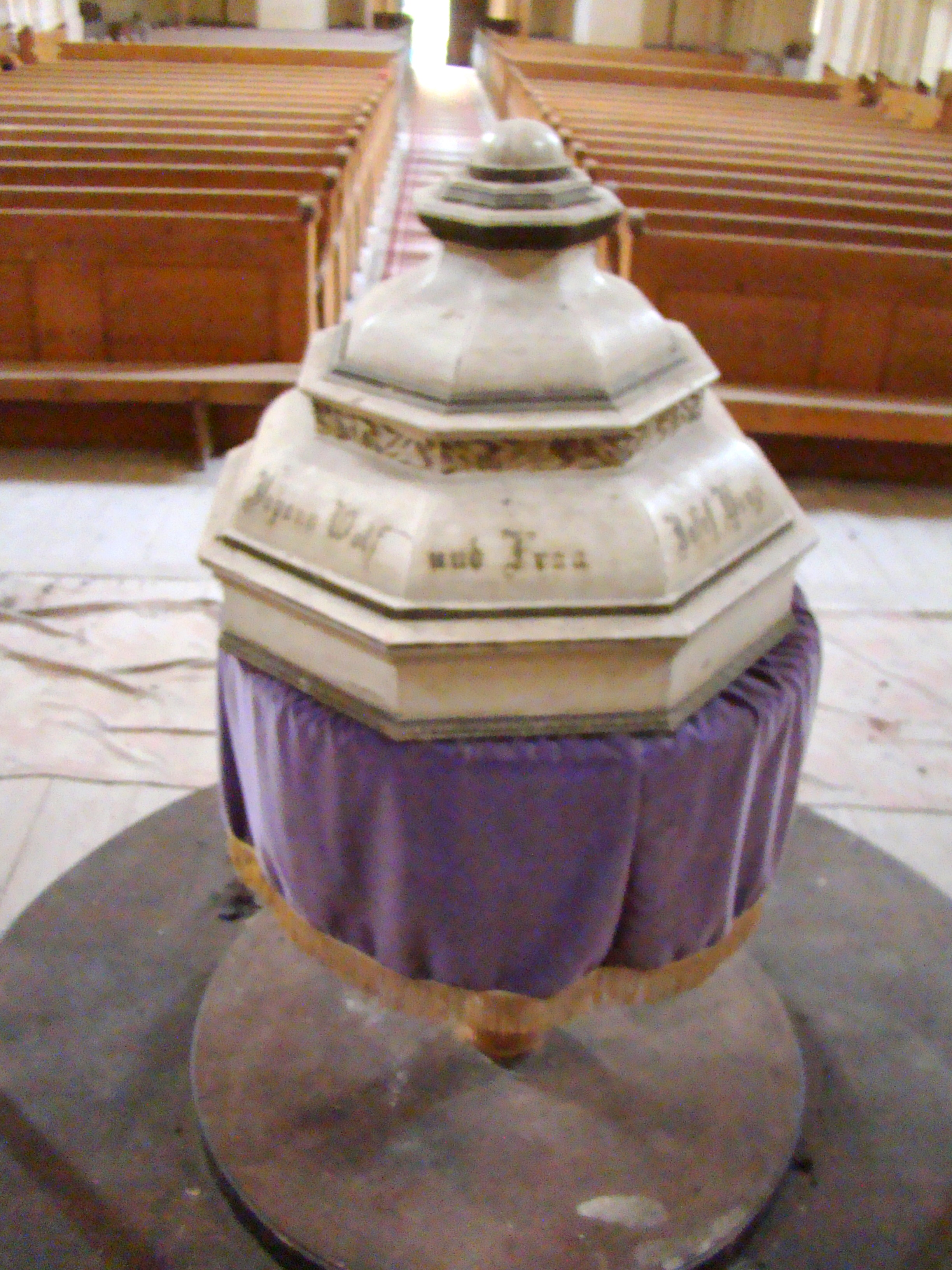 Lutheran church in Șaeș, Mureș county, Romania